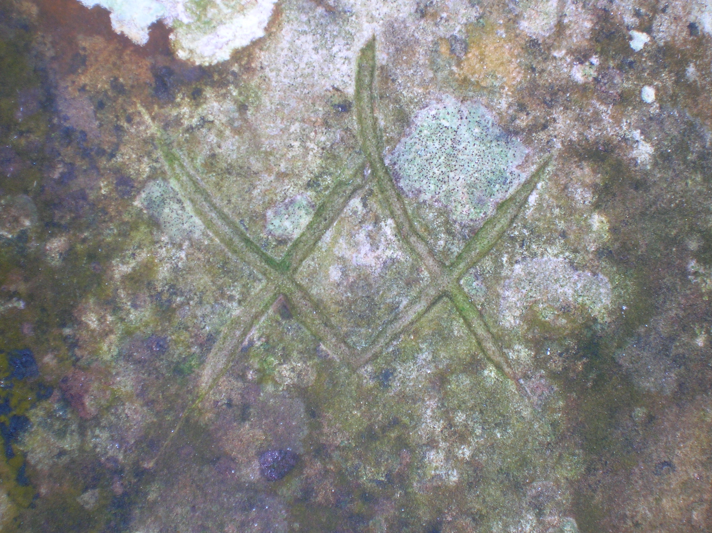 A possible mason's mark on the deer park wall at Eglinton, Kilwinning, Scotland.